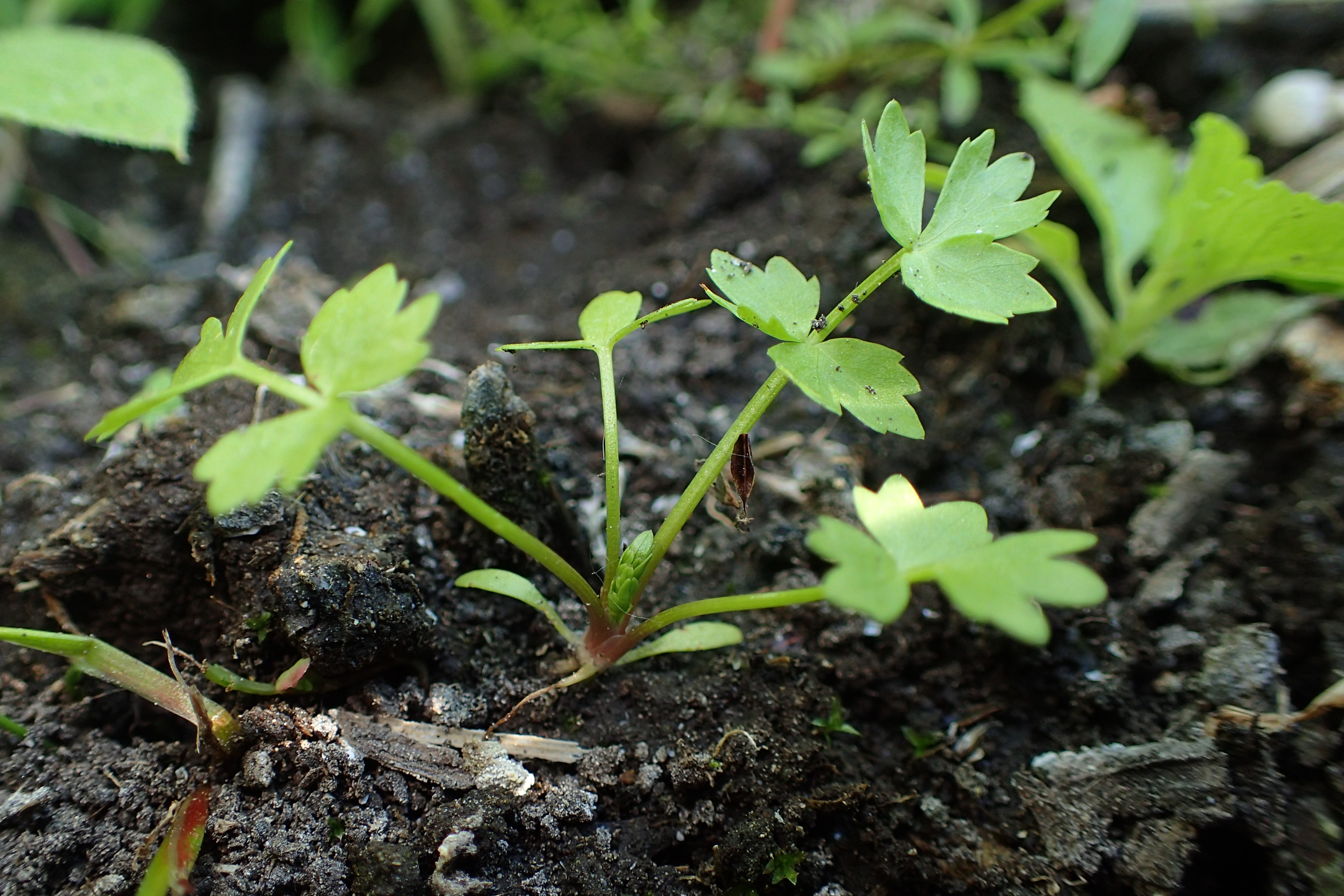 Apium repens seedling on Miedwie Lake in Turze, NW Poland